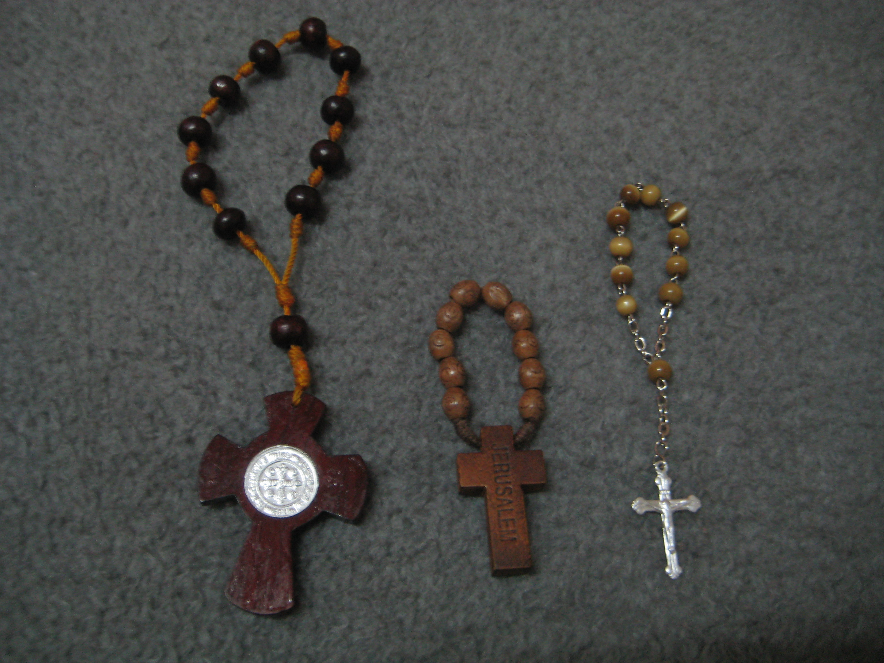 Rosary 10